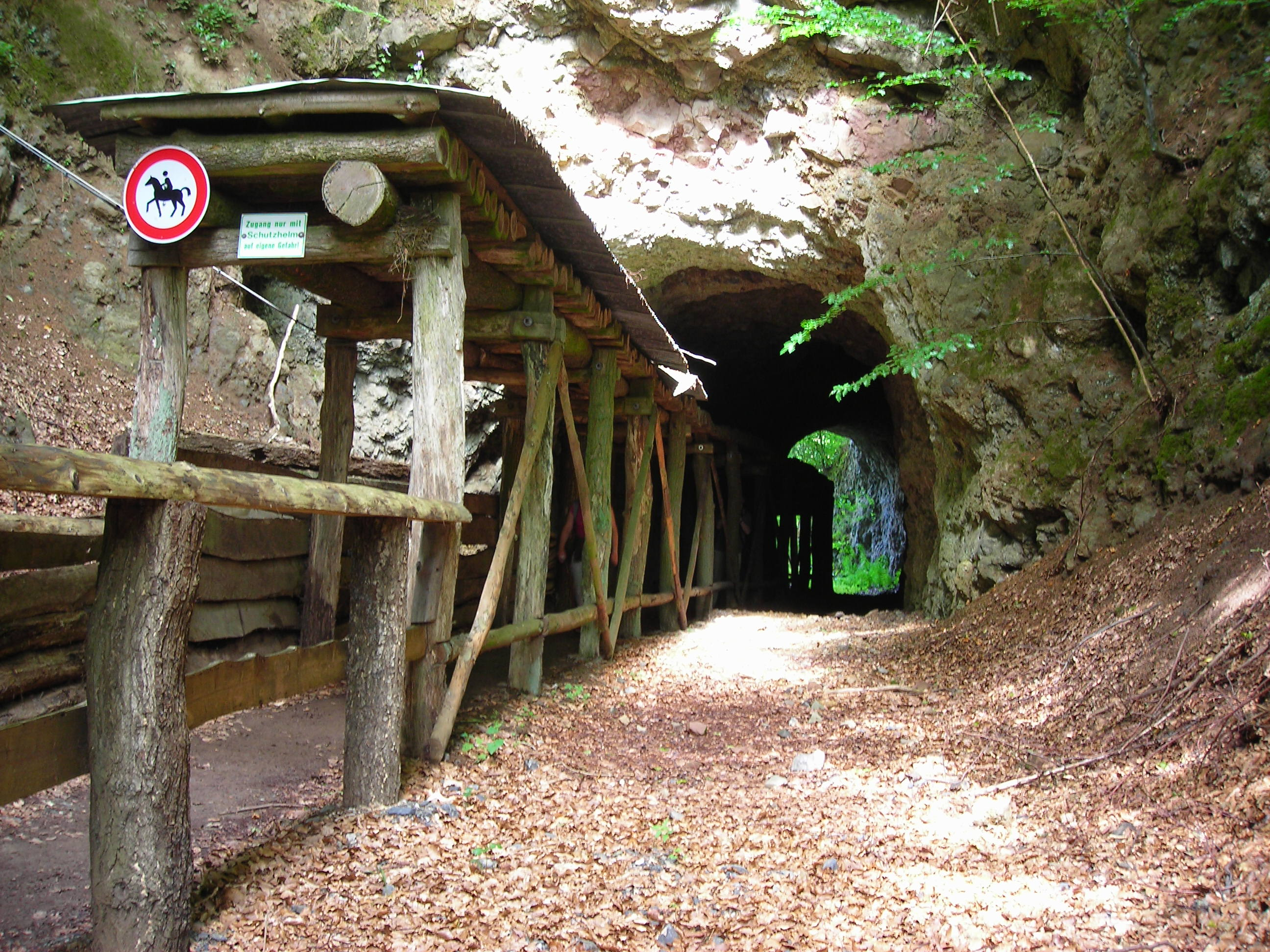 Entrance to the Arensberg Crater (Vulkaneifel, Germany)